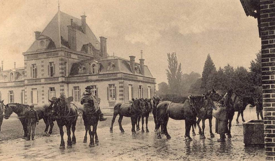 A photograph of an old postcard: The Chatelet, or "little chateau" of the Carrousel de Baronville, 28700 Beville le Comte, France.